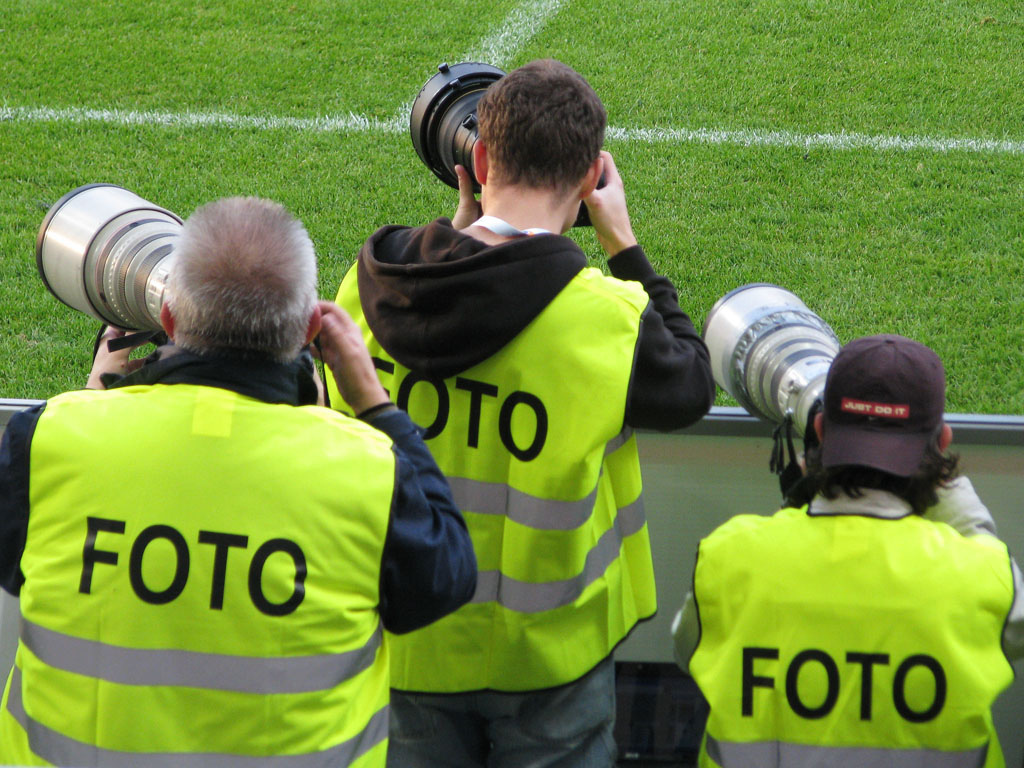 Photographers in a Polish football stadium.